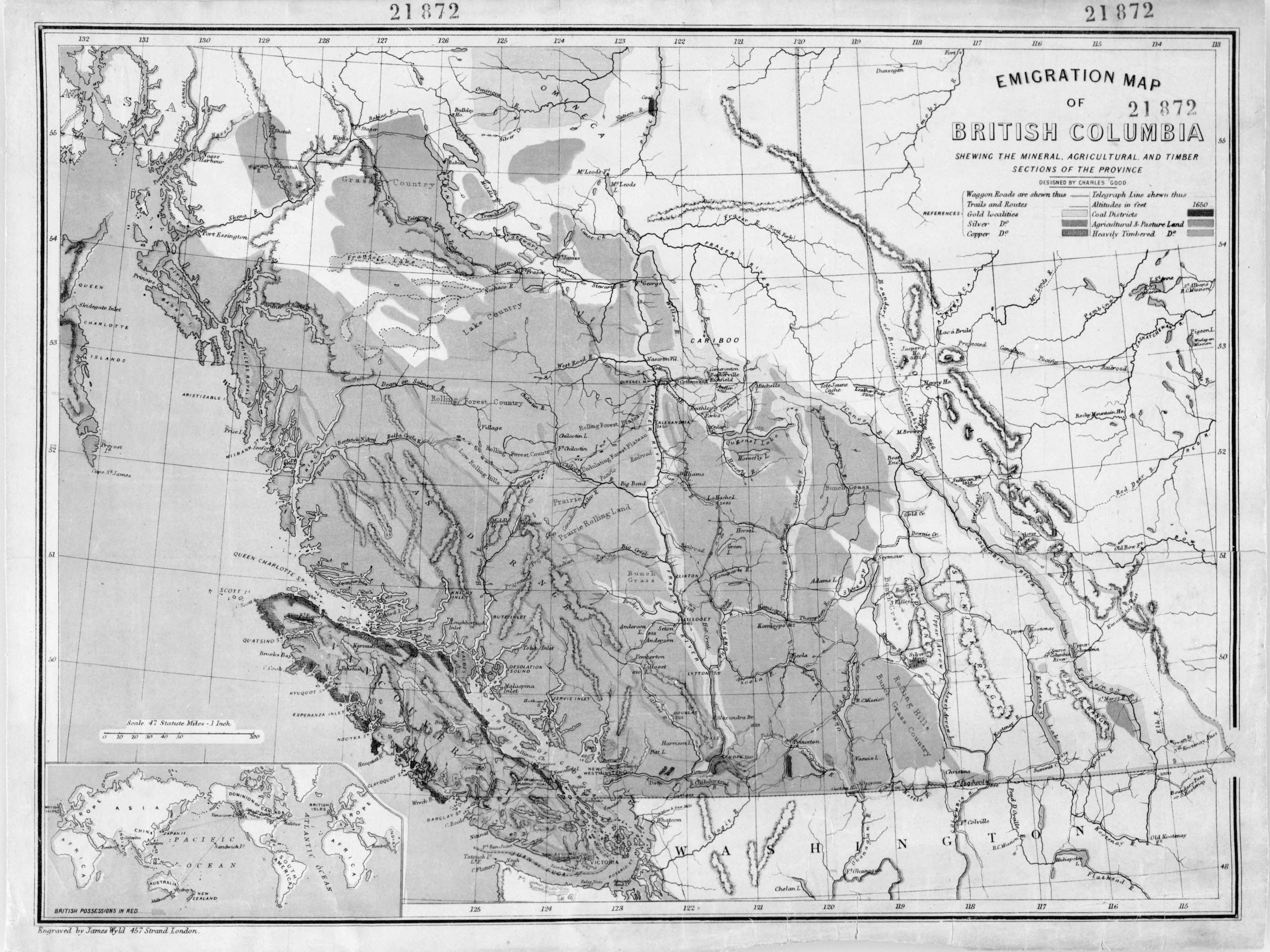 Map of British Columb, 1873